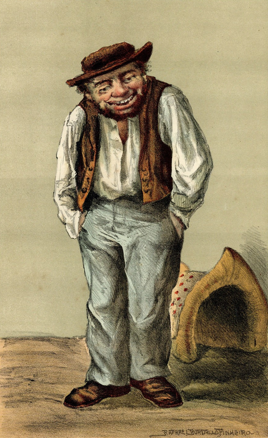 Portuguese caricatural everyman Zé Povinho, by Rafael Bordalo Pinheiro (published in the Álbum das Glórias, 1882).